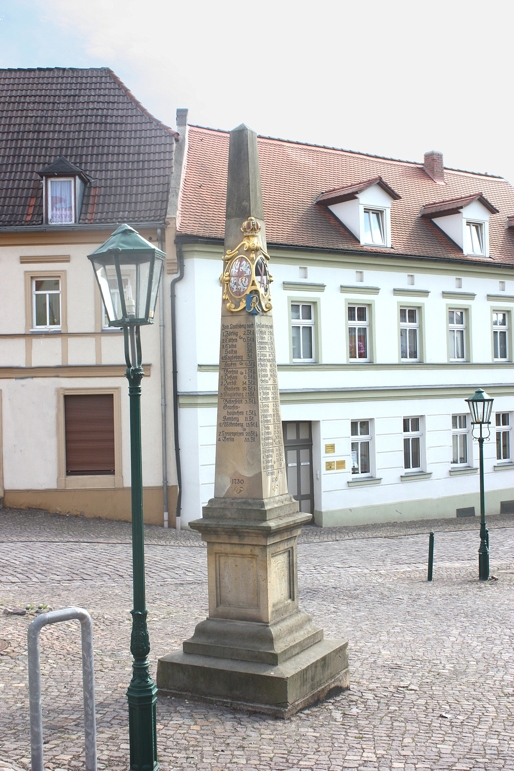 Landsberg (Saalekreis), post milestone